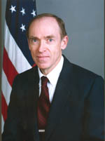 Donald C. Johnson, U.S. Ambassador to the Equatorial Guinea. Former ambassador to Cape Verde and to Mongolia.